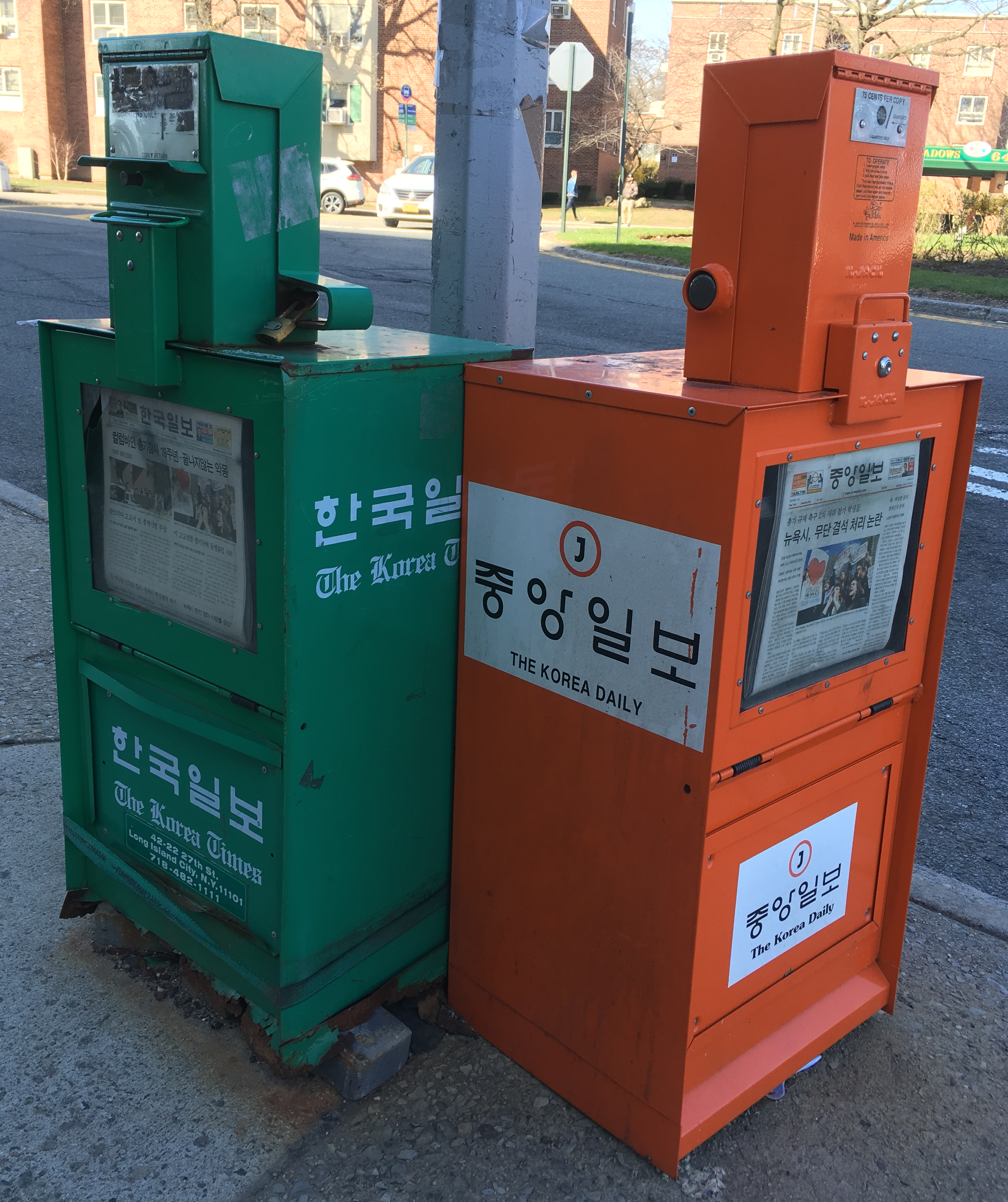 Taken at a bus stop in the Fresh Meadows part of Long Island. Because of many Koreans living in the neighborhood, there are machines selling two competing Korean newspapers. The machines are clearly labeled in both English and Korean.